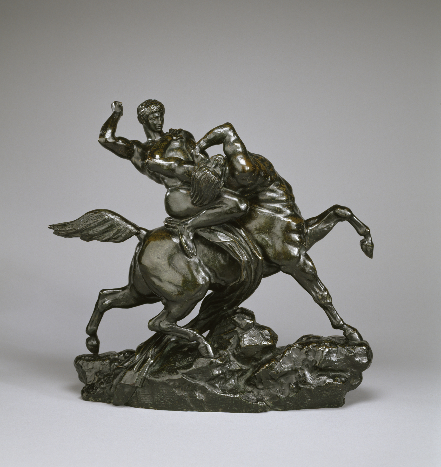 The hero Theseus has leapt on Bianor's back and seized him by the neck as he prepares to deliver a deadly blow. Barye has depicted an incident from The Metamorphoses, a history of the world by the Roman poet Ovid (43 BC-AD 17). In ancient Greece, the Lapiths, a mythical people of Thessaly, invited to the centaurs to a wedding. The centaurs were mythical creatures, half man and half horse, who roamed Arcadia, a region of Greece, and were notoriously destructive. All the centaurs were killed following a fight that erupted when they tried to carry off the Lapith women.